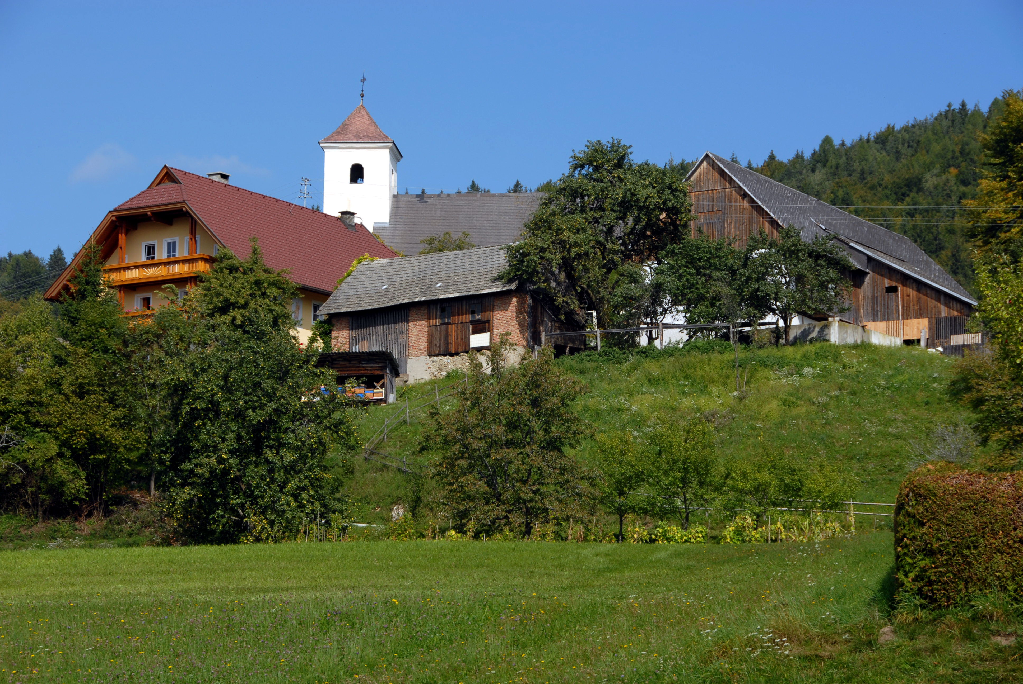 Village with the subsidiary church Saint Rupert and Luzia at Rupertiberg, municipality Ludmannsdorf, district Klagenfurt Land, Carinthia, Austria, EU